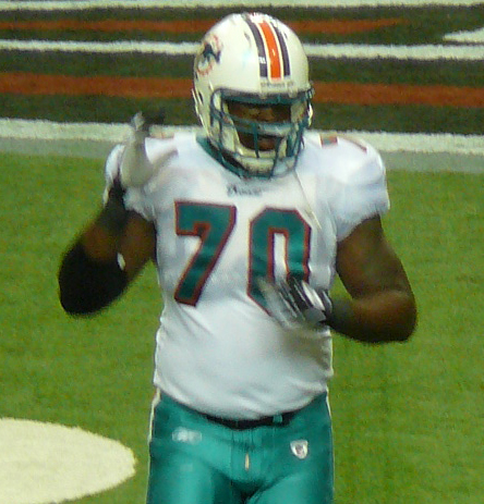 If used somewhere other than Wikipedia, Nelson, by name.